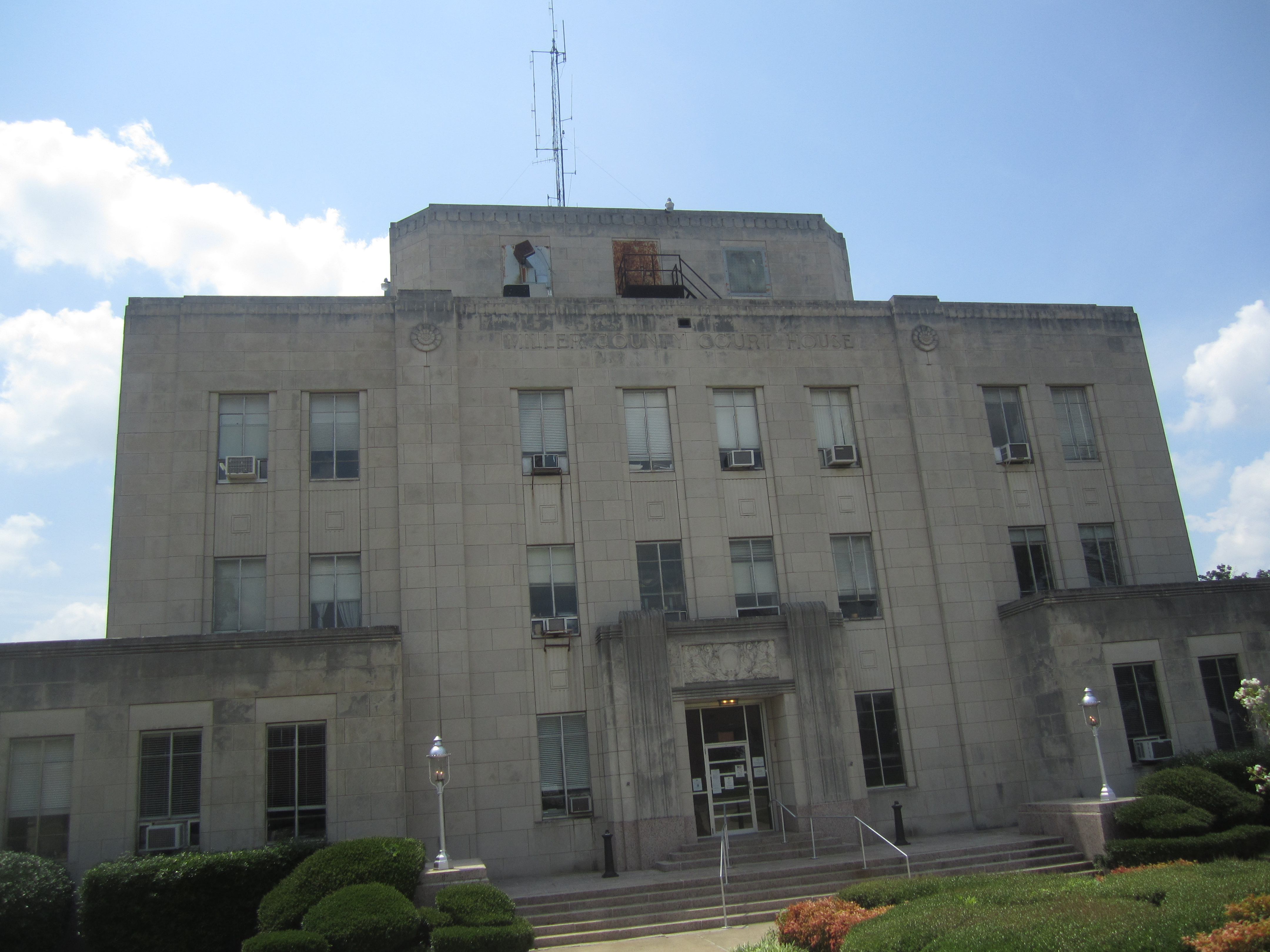 I took photo of Miller County, AR, Courthouse with Canon camera on June 9, 2012.Billy Hathorn (talk) 22:18, 28 June 2012 (UTC)